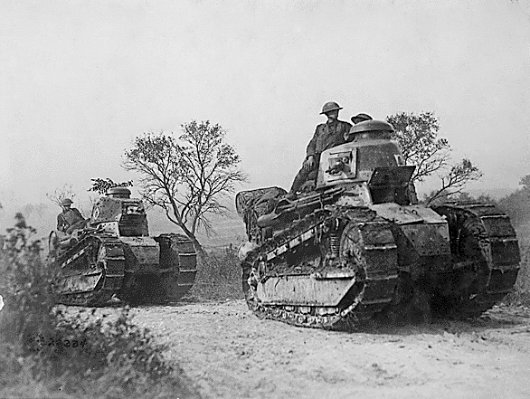 American troops going forward to the battle line in the Forest of Argonne. France. A larger, slightly cropped?, version of this image is available here